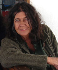 Vera Felicidade, psicóloga